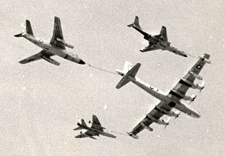 A KB-50J refuels an F-101A Voodoo, B-66 Destroyer and F-100D Super Sabre at RAF Waterbeach, Cambridgeshire on Battle of Britain Day 1963. The KB-50J has four Pratt and Whitney Wasp Major radials and two General Electric J47 turbojets. Refuelling speed is 415 mph. Picture taken by Adrian Pingstone, released to the public domain. (Sorry about the rubbish quality but it's a clip from a tiny portion of the photo)